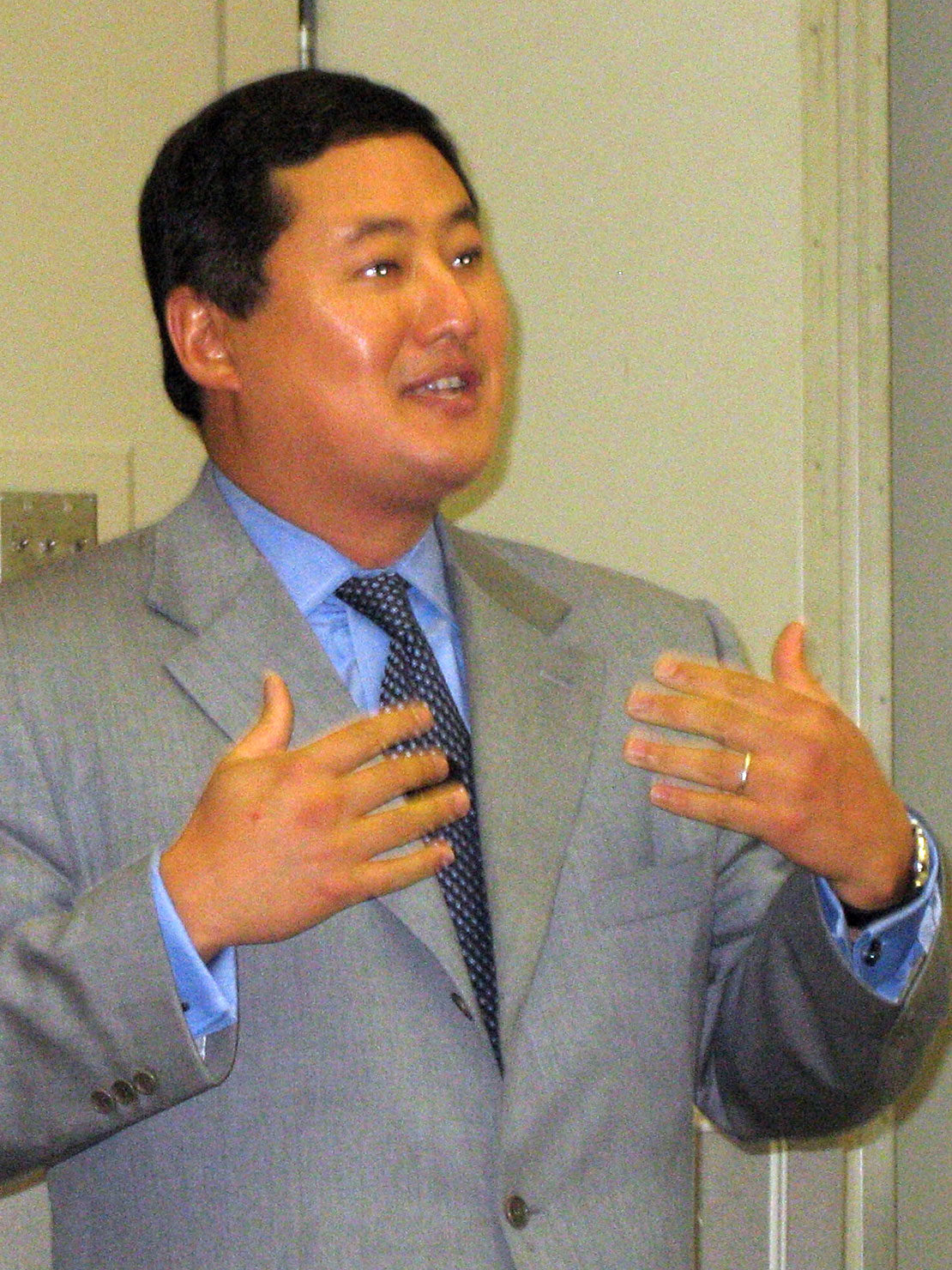 Photograph of John Yoo